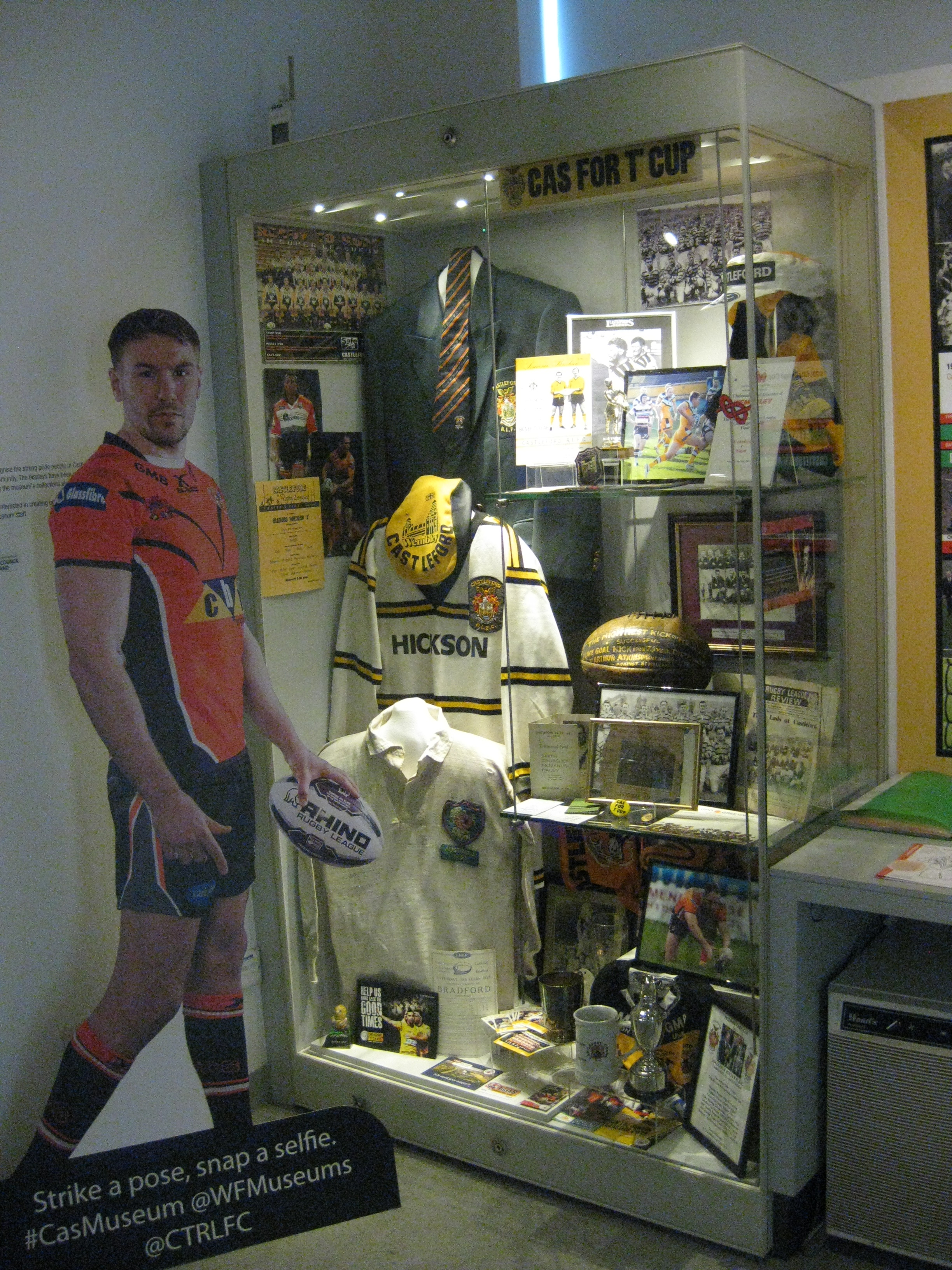 A display of memorabilia about Castleford Tigers in Castleford Forum Museum with a picture of one of the players for visitors to take a selfie. It looks to me like Zac Hardaker but without his arm tattoos.